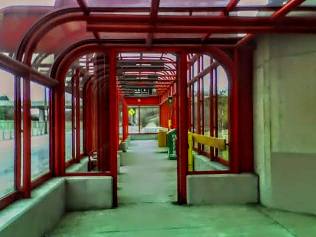 My own photo from inside the westbound platform area of OC Transpo's Train Station in Ottawa. Photo taken 1 April 2007.